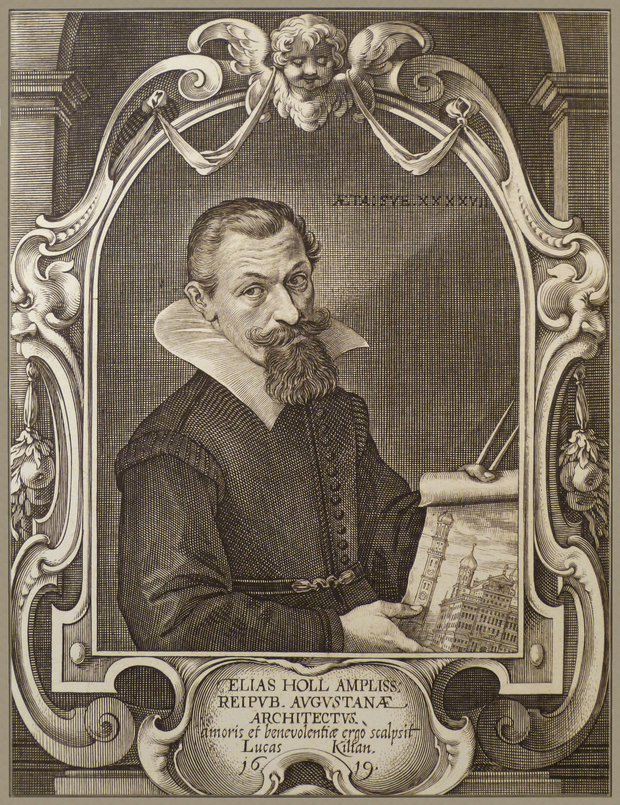 Engraving of the important German Renaissance architect Elias Holl.